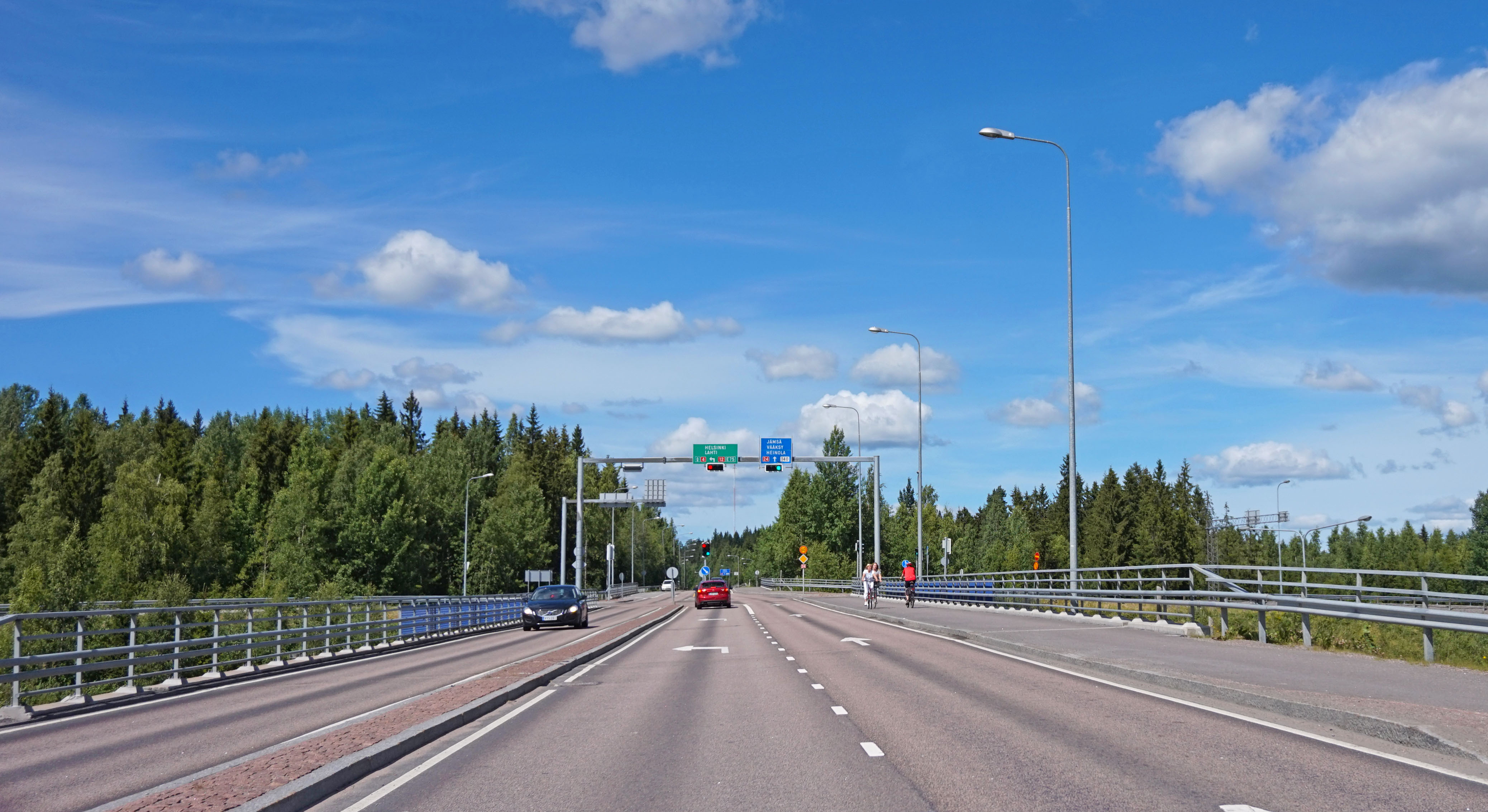 National road 24 in Lahti, Finland.This photograph was taken with a Sony ILCE-5000